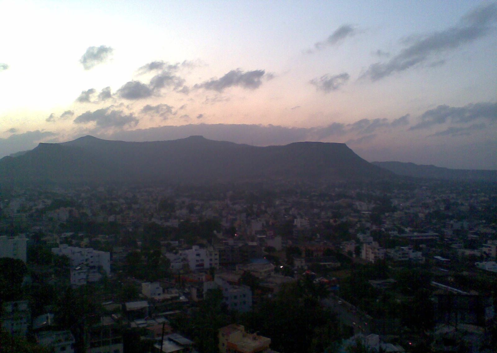 View of Satara City at sunset, from Charbhinti. (A photo taken at 11th December, 2011, 1815 hrs. (IST)